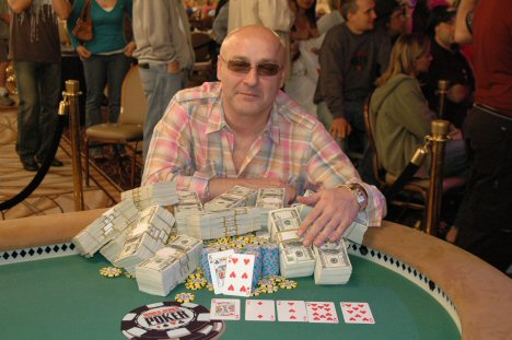 Farzad Bonyadi after winning in the 2005 World Series of Poker.